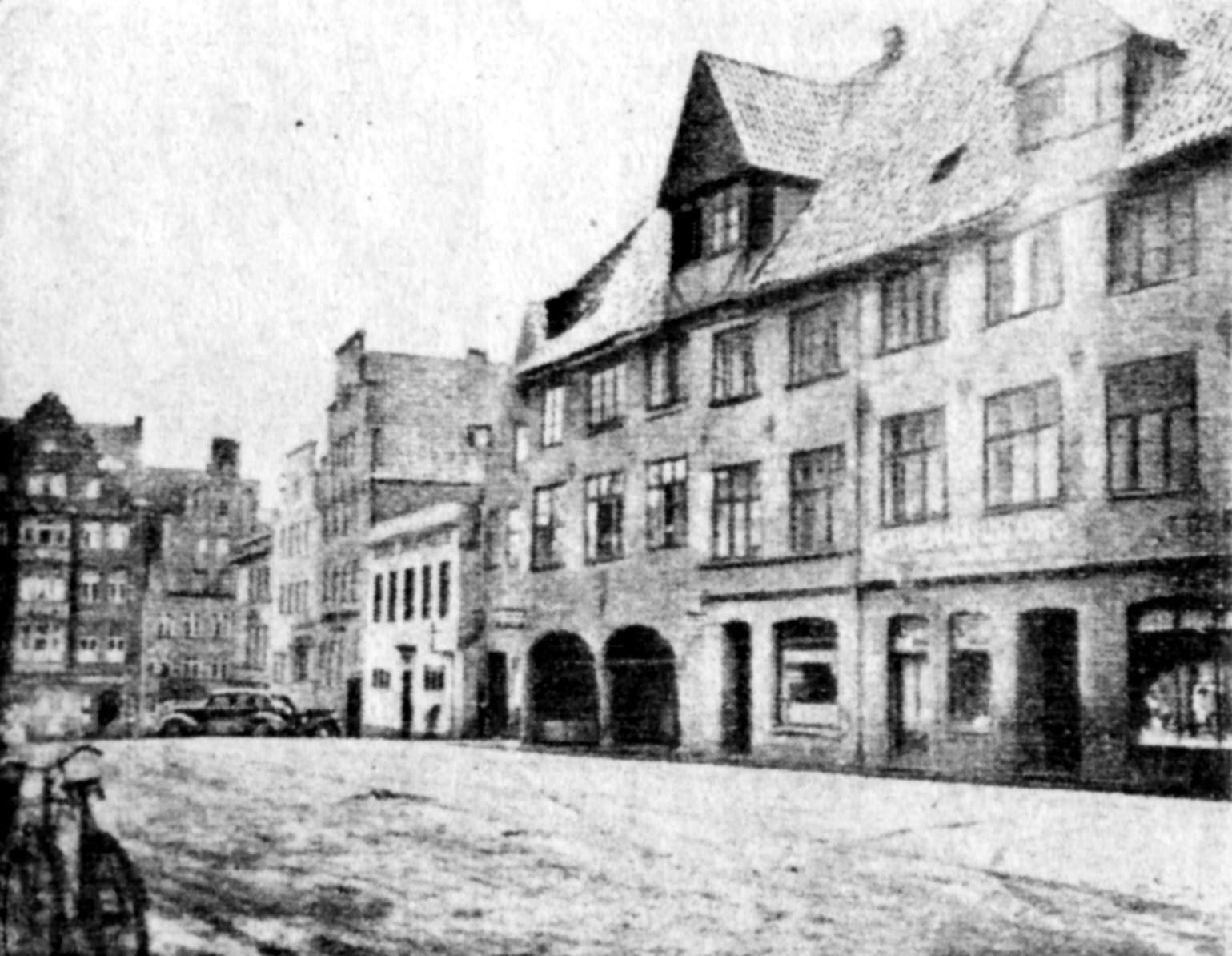 Schrangen square in Lübeck, 1937